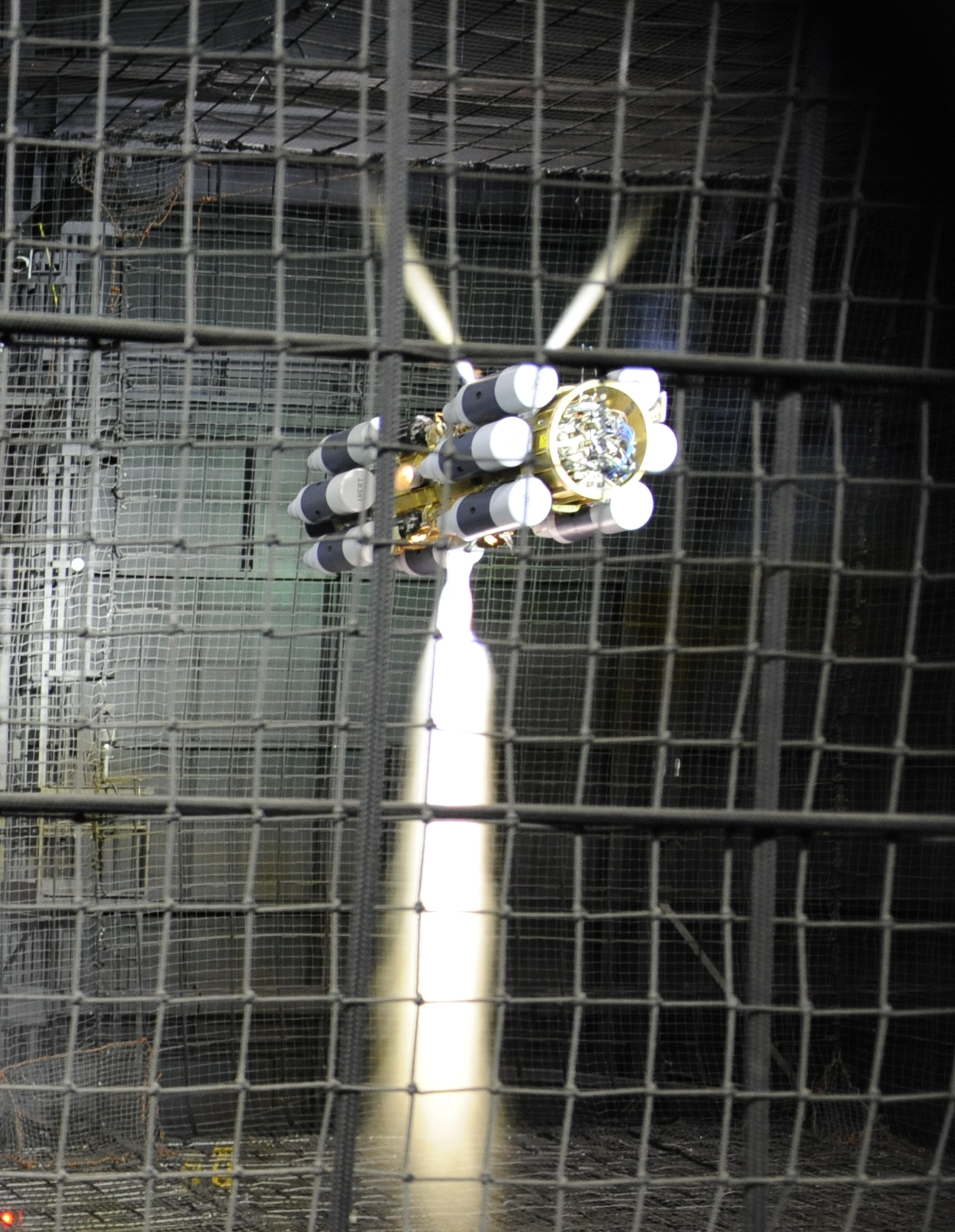 Multiple Kill Vehickle (MKV-L) during the hover test